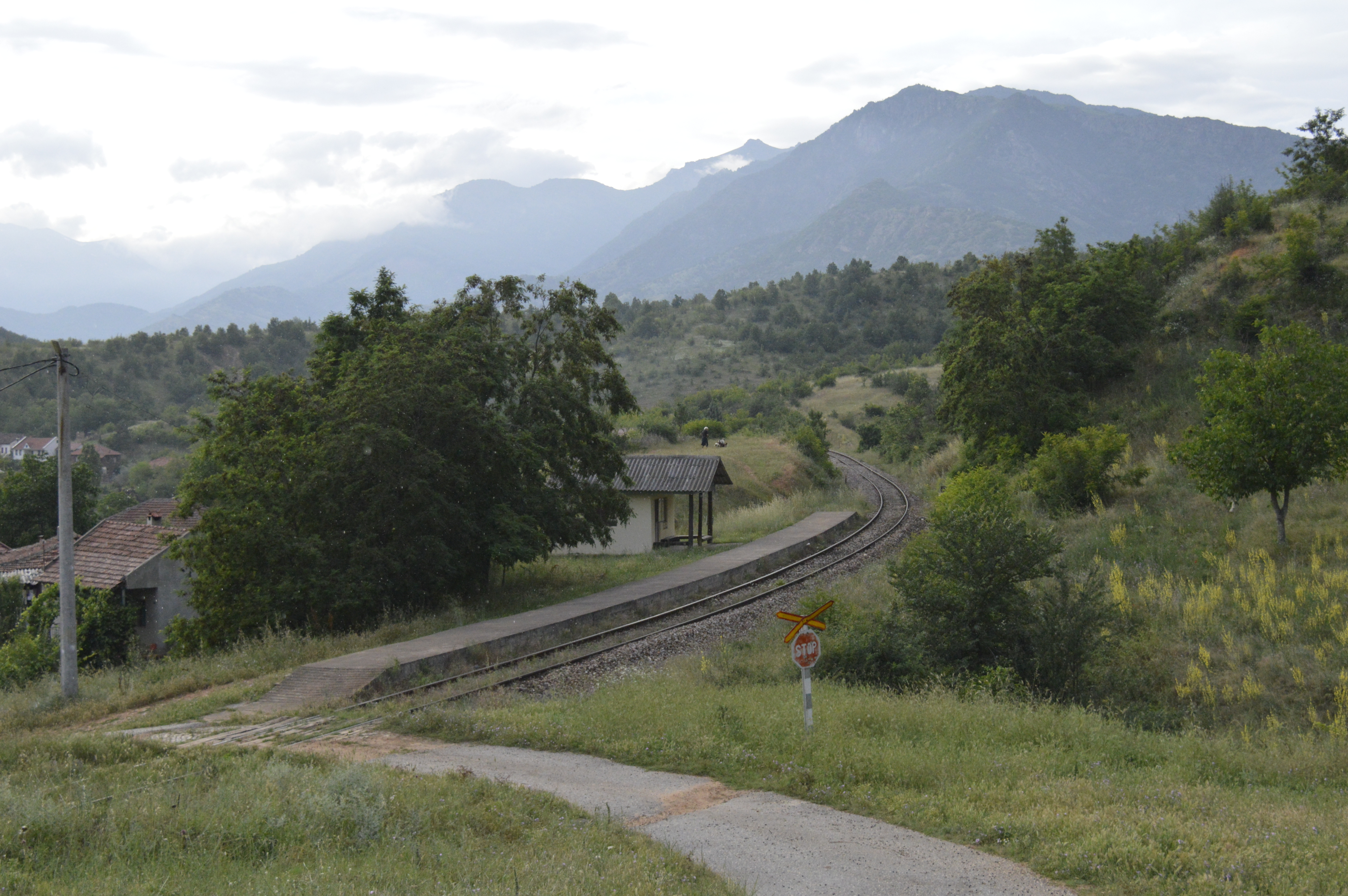 Railway station in the village Teovo